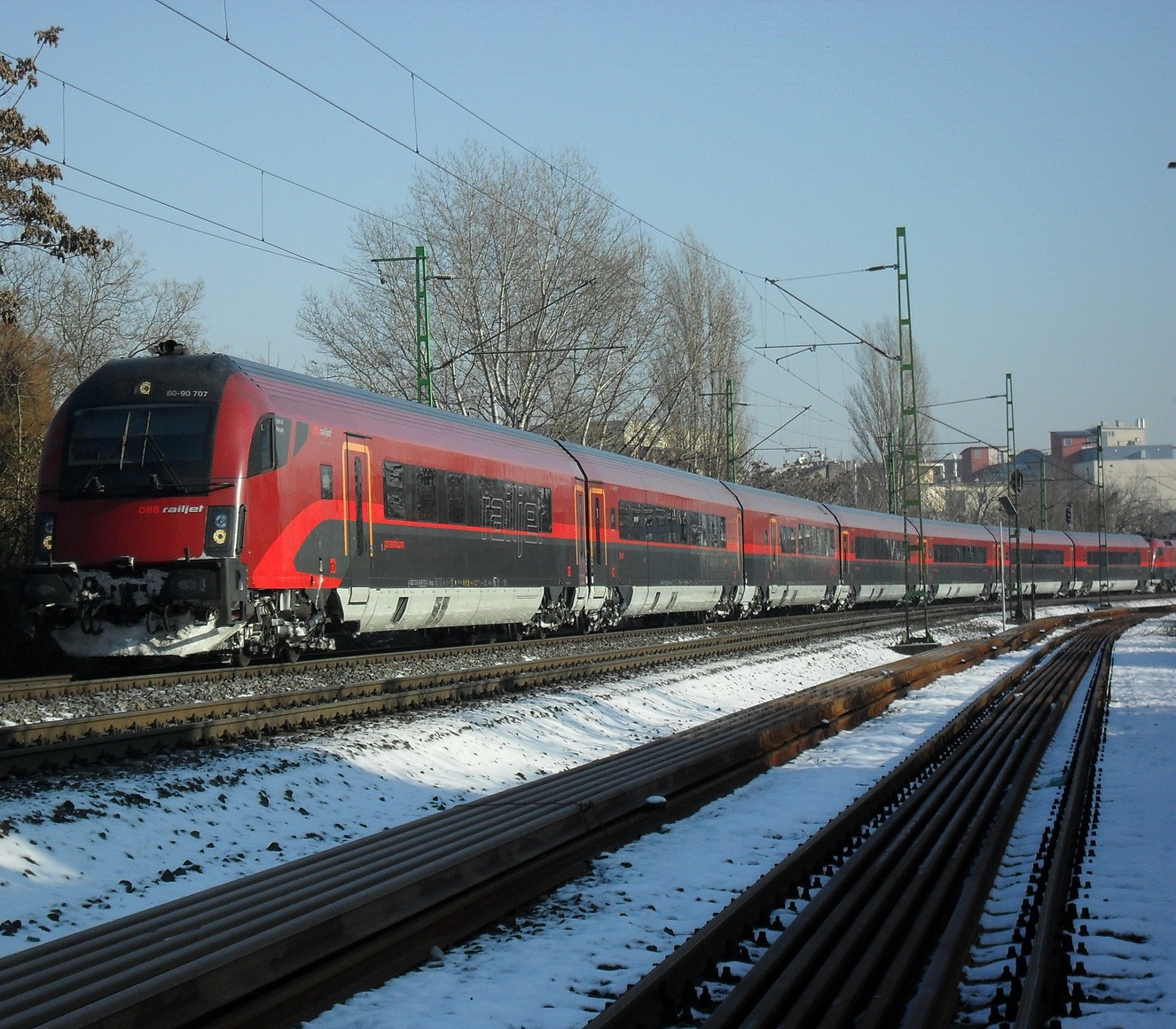 Railjet Hungary Nagytétényi Road